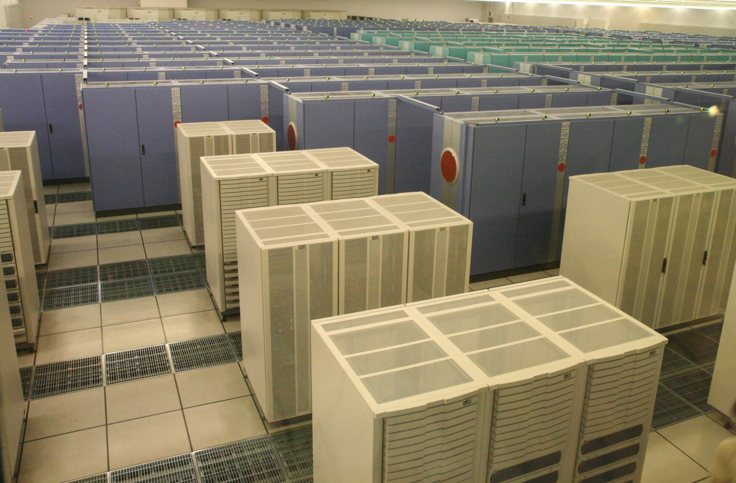 Earth Simulator in Japan JAMSTEC 2007 中文（台灣）: 日本地球模擬器 2007